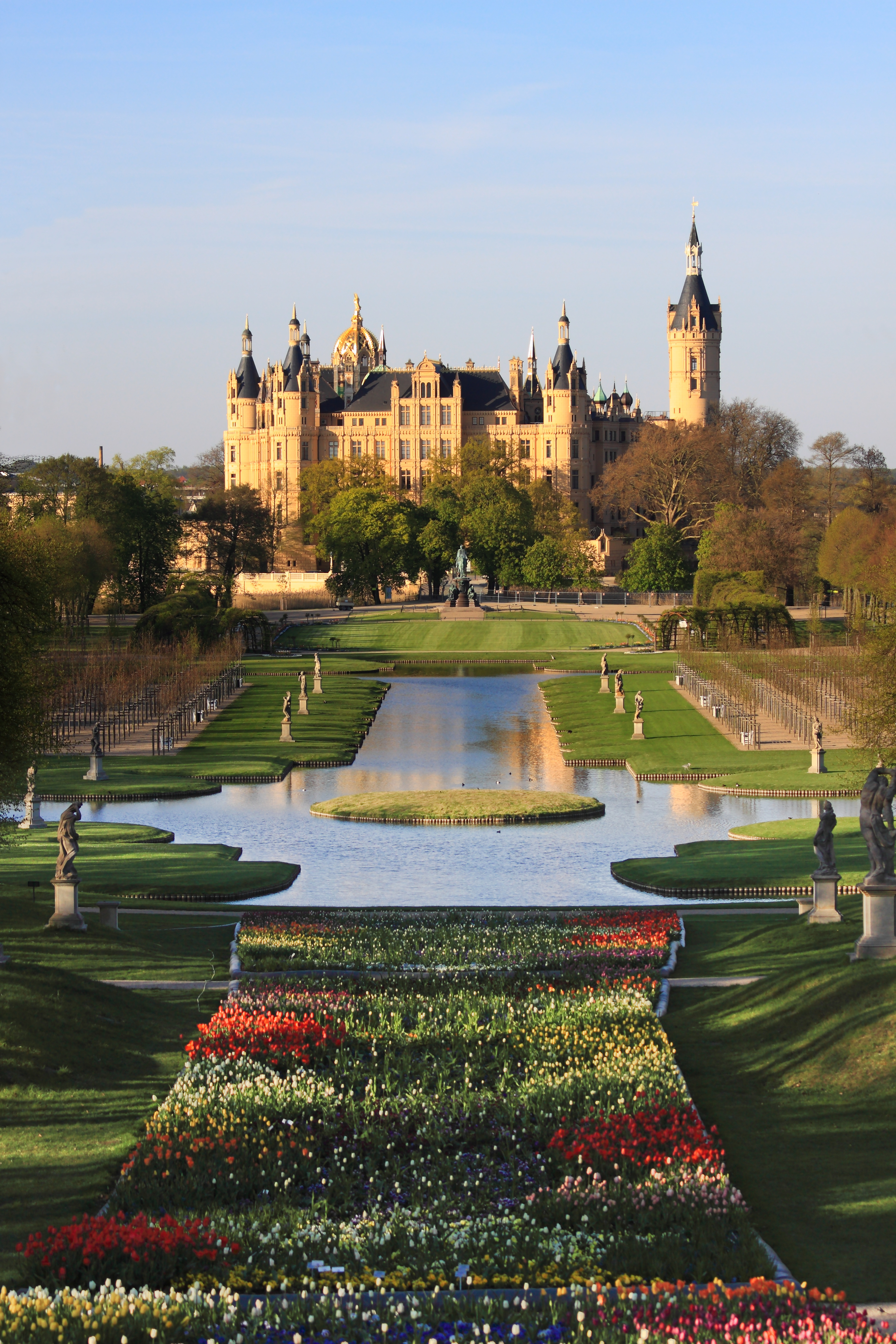 Schwerin Castle